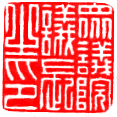 Imprint of the Speaker of the House of Representatives of Japan. (Empire of Japan)